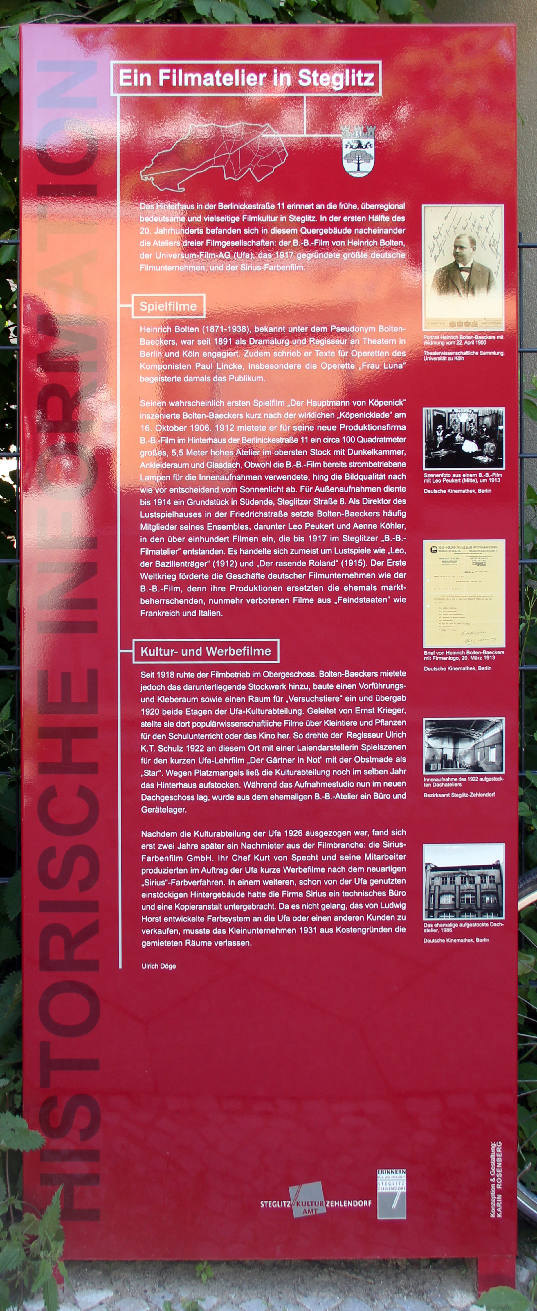 Memorial plaque, Filmatelier, Berlinickestraße 11, Berlin-Steglitz, Germany